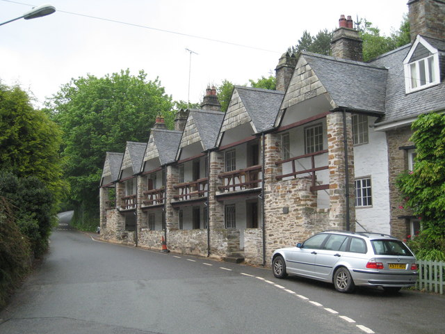 The Sir William Moyle's Almshouses at St Germans Erected in 1583 and reconditioned in 1967.